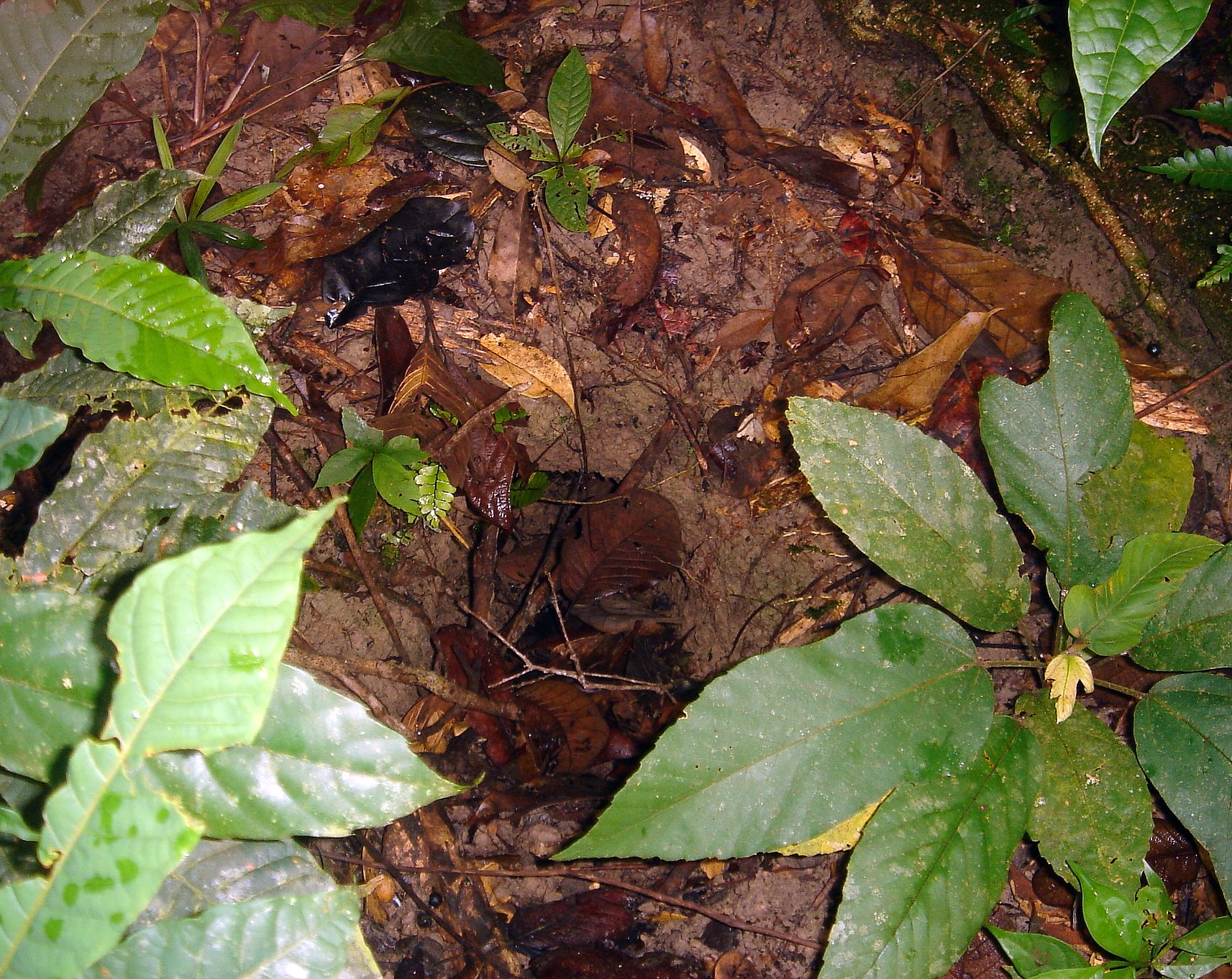 Disused armadillo burrow in the Lower Rio Branco-Rio Jauaperi Extractive Reserve, Brazil. Could be Dasypus kappleri, Dasypus novemcinctus or Priodontes maximus.